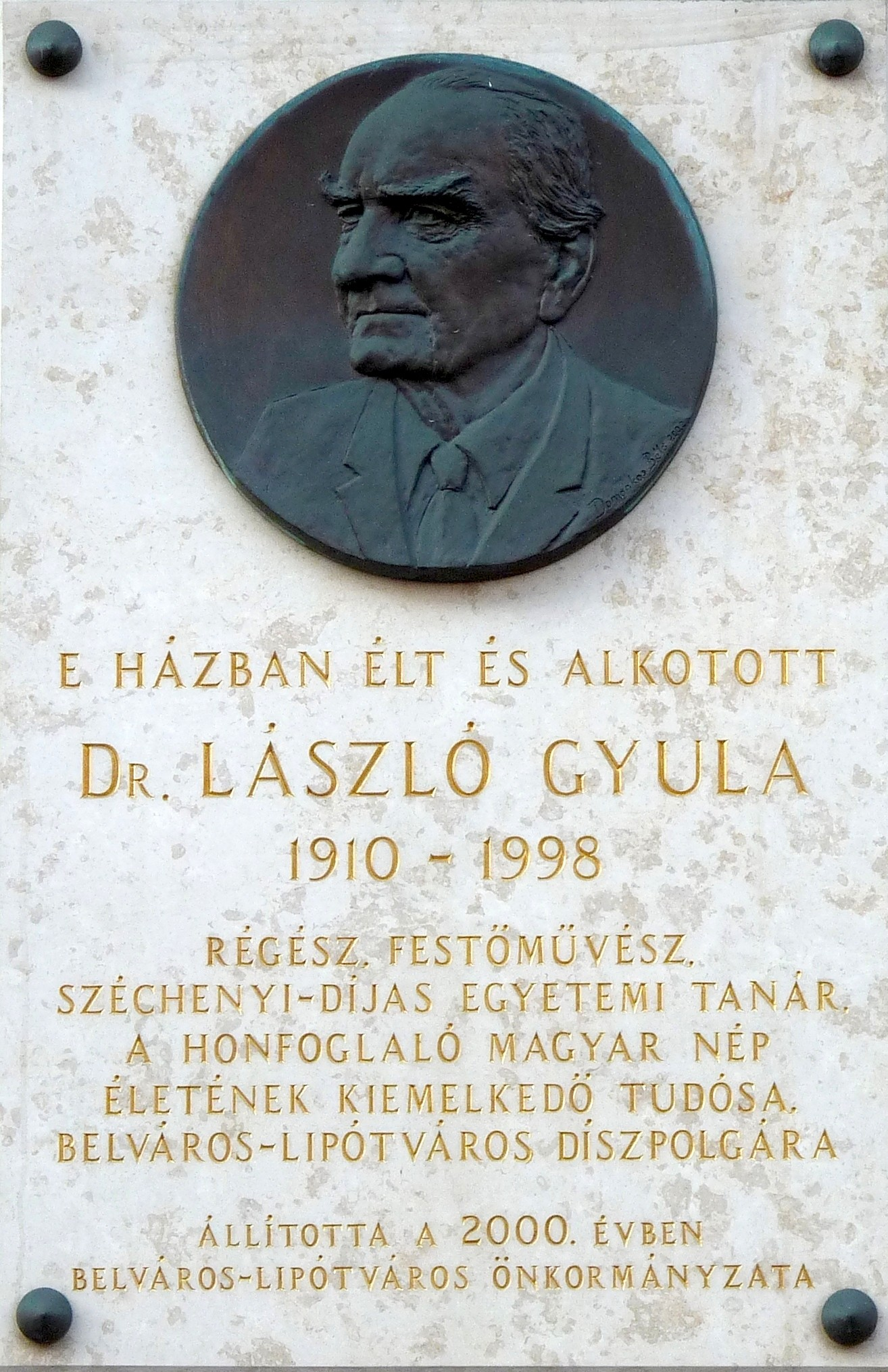 Commemorative plaque to Mr. Gyula László (1910–1998), Hungarian archaeologist, historian, artist and professor, affixed to the wall of his former home. Author of the bronz relief: Béla Domonkos (Budapest, District V, Alkotmány Street Nr 20).